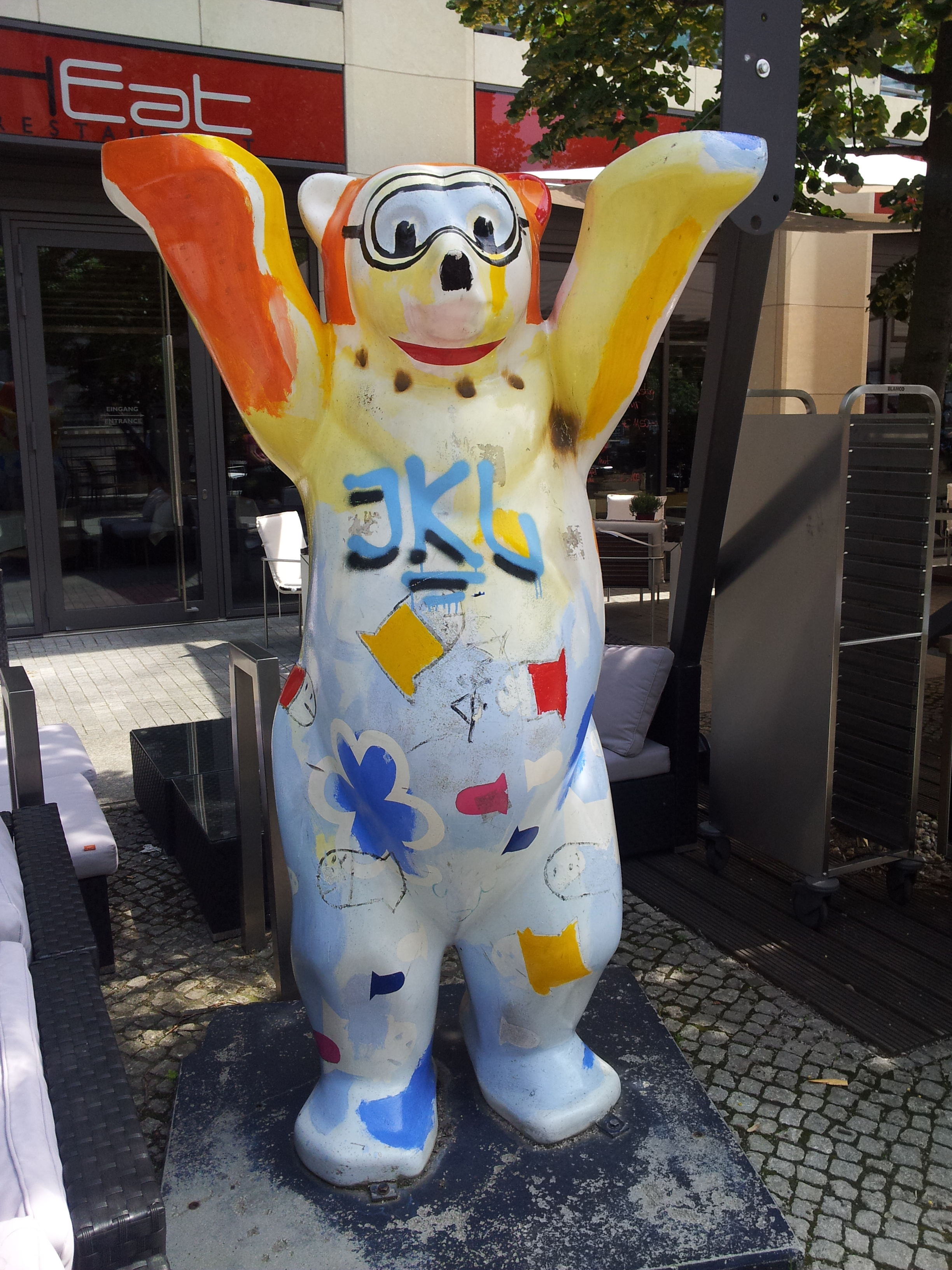 Berlin bear figure